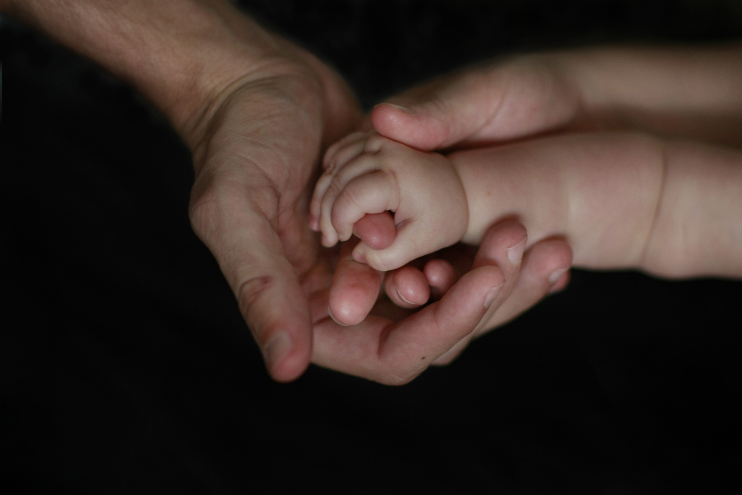 Hands of a male and a baby